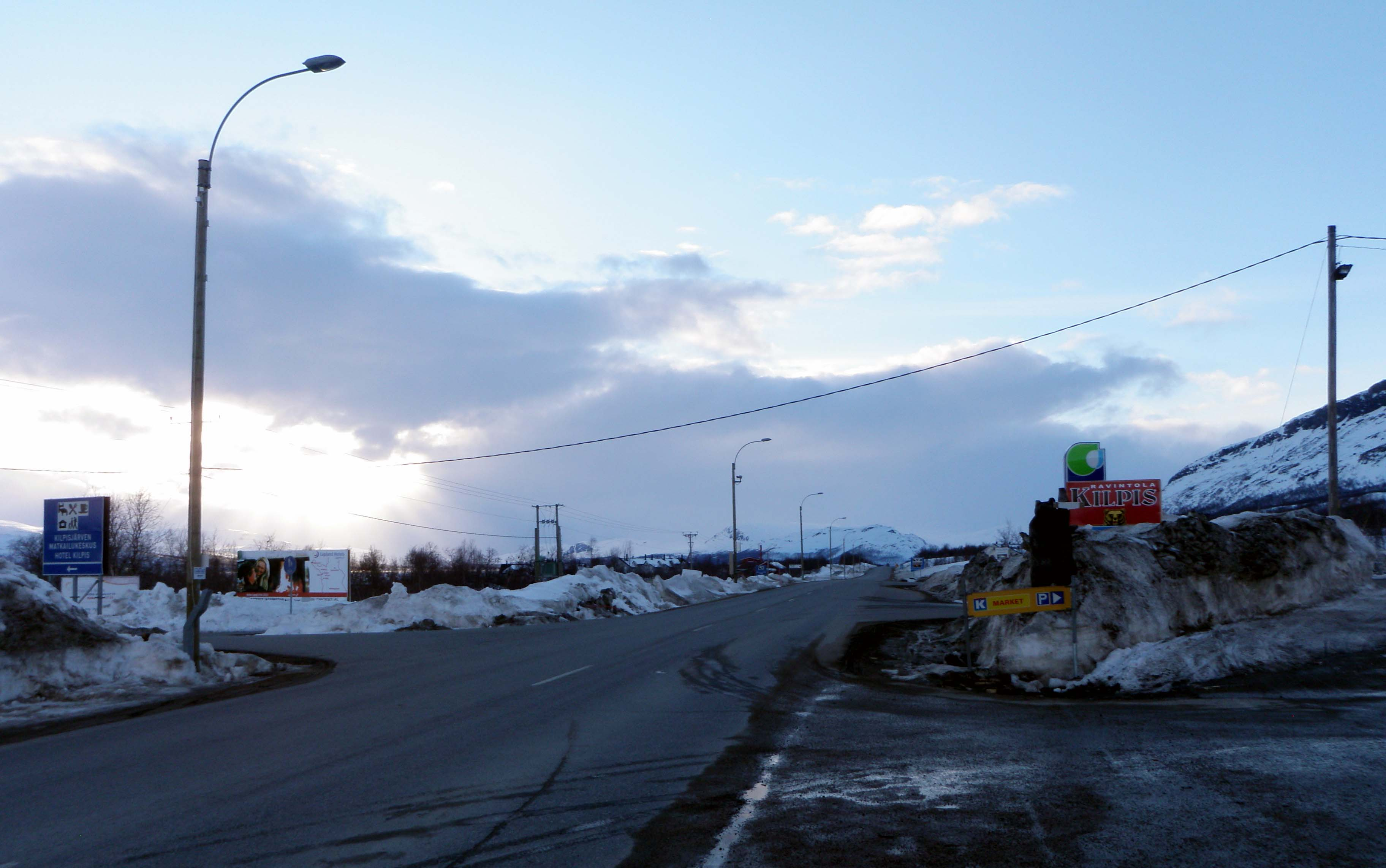 View of Kilpisjärvi, in Enontekiö, Finland. View north towards the border with Norway.